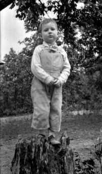 A boy standing on a weathered tree stump, wearing overalls, with trees in the background.